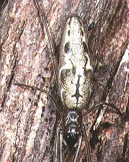 female Tetragnatha makiharai from Okinawa.